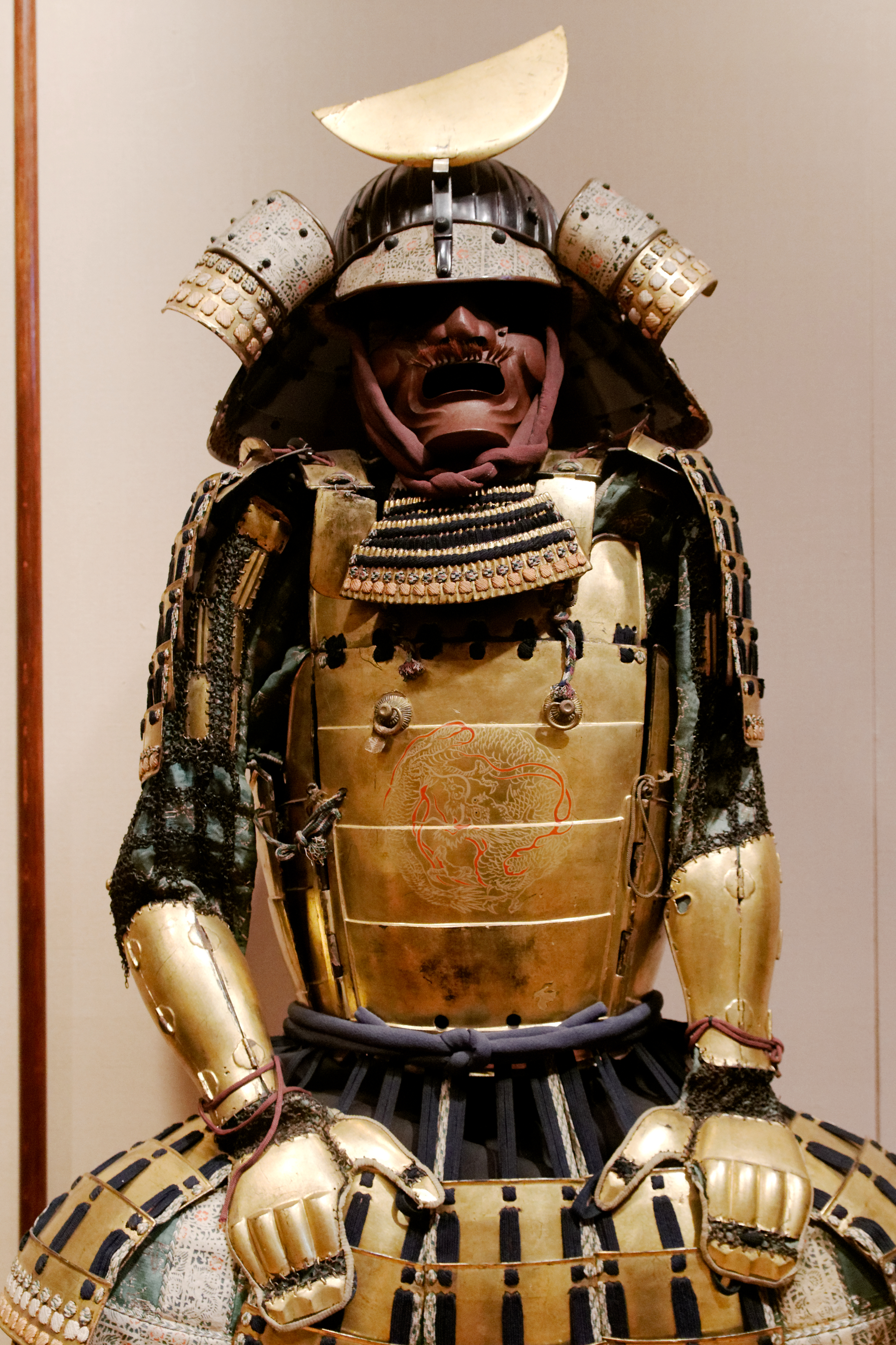 Gusoku (armour) insribed by Yukinoshita Sadaiyé, Edo period.